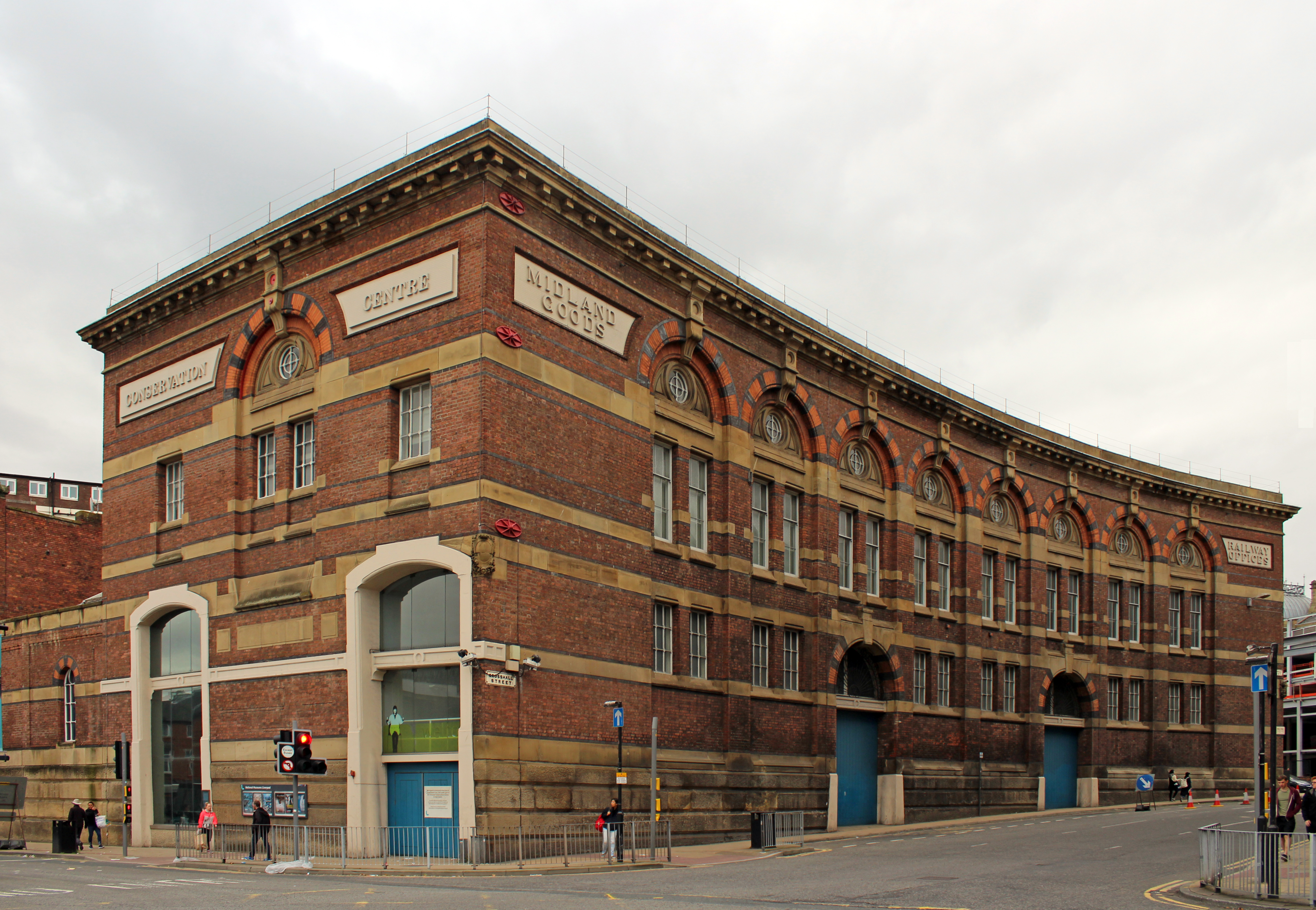 View from north side of Hood Street